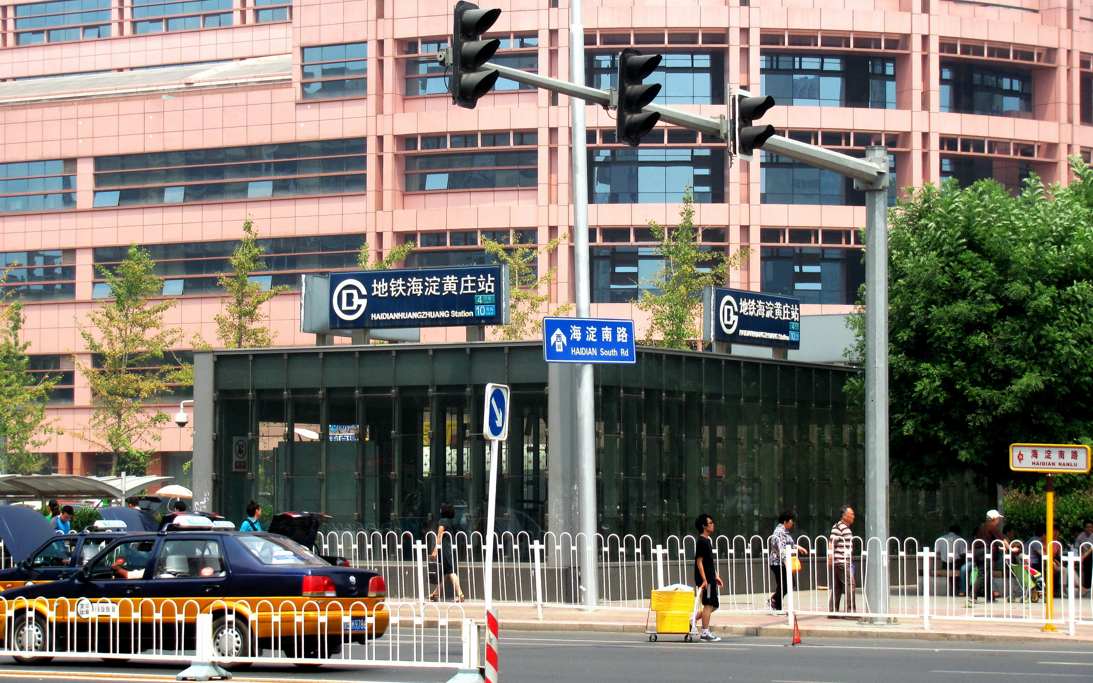 Haidian Huangzhuang Subway Station, Beijing